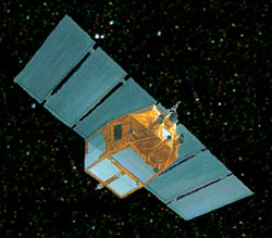 BeppoSax X-ray satellite. Courtesy of the Agenzia Spaziale Italiana (ASI) and the BeppoSAX Science Data Center (SDC).